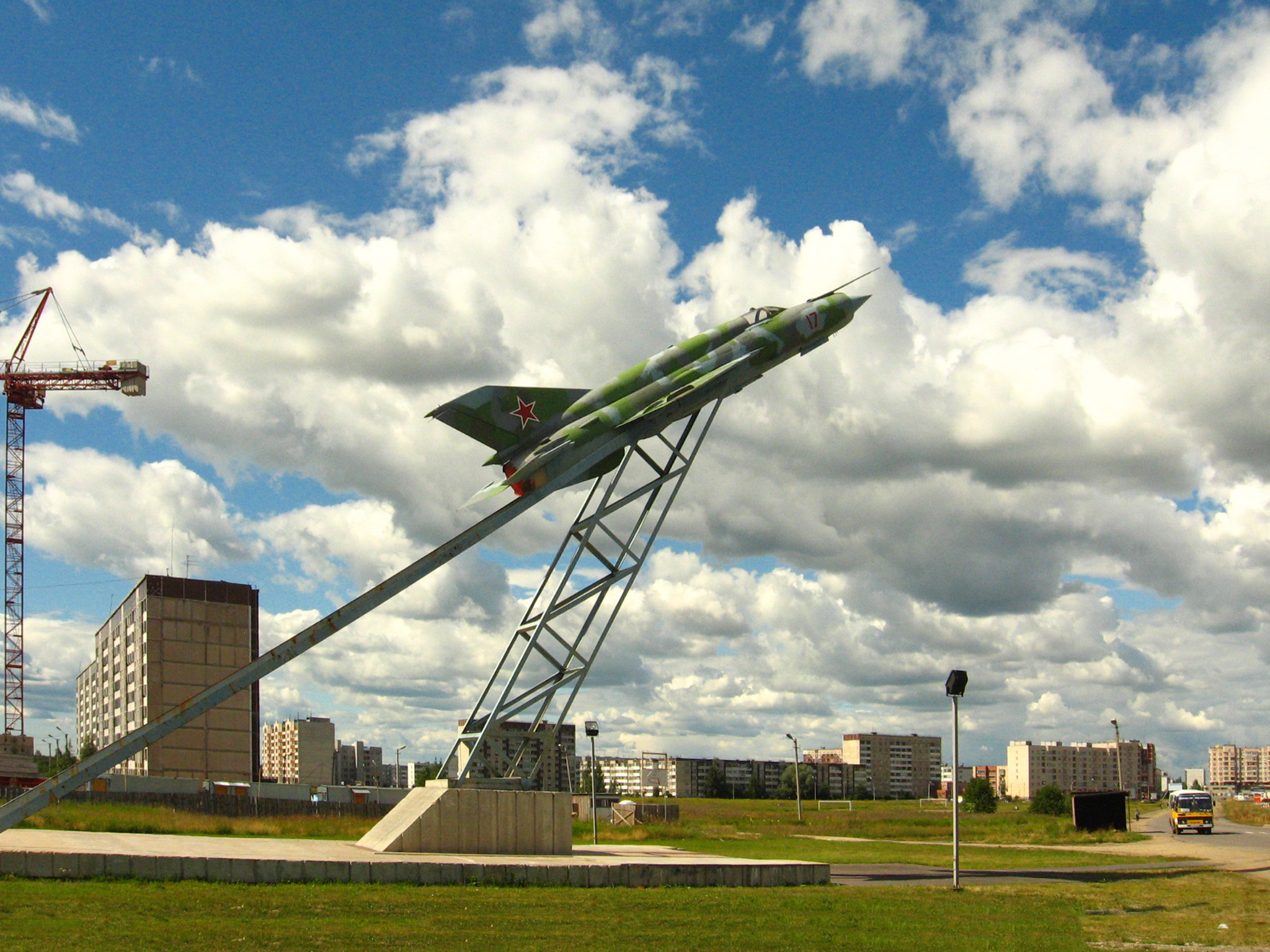 MiG-21 (SMT?) monument in Gatchina, Aerodrom microdistrict